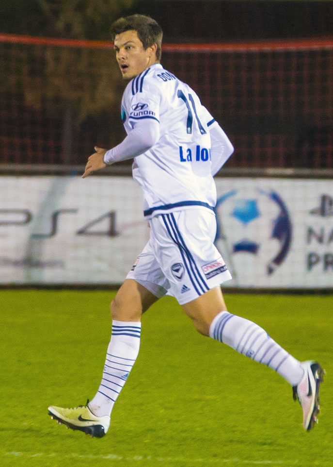 James Donachie playing for Melbourne Victory in a friendly match against Port Melbourne, 9 August 2016